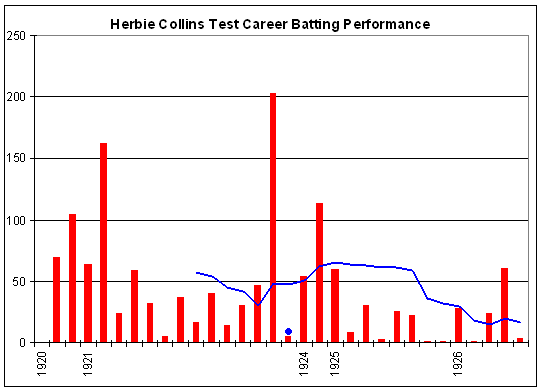 Test batting chart of Herbie Collins. Red columns are the runs in the innings. Blue dots indicate not outs. Blue line is average in the last ten innings. Thanks to Raven4x4x for providing the template.